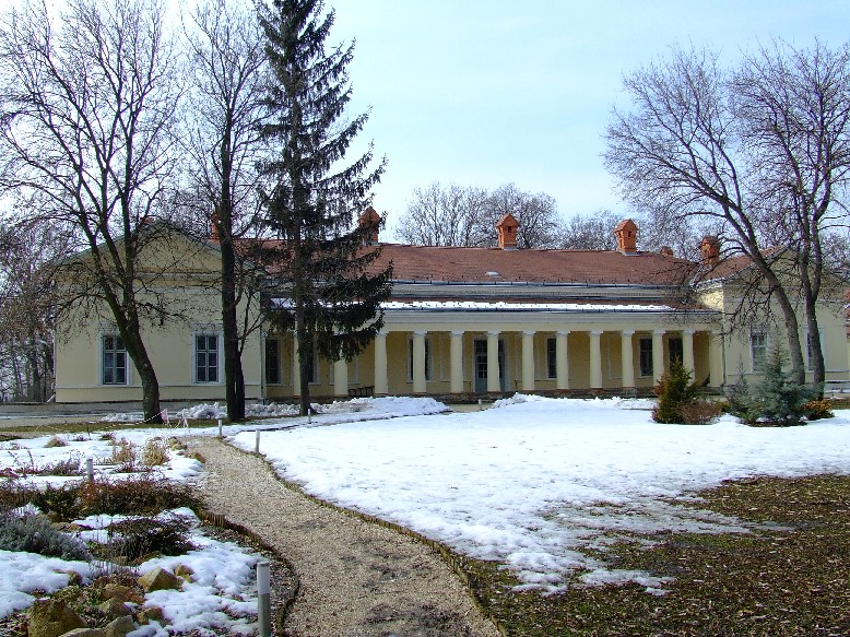 Podmaniczky mansion in Verseg village, Hungary